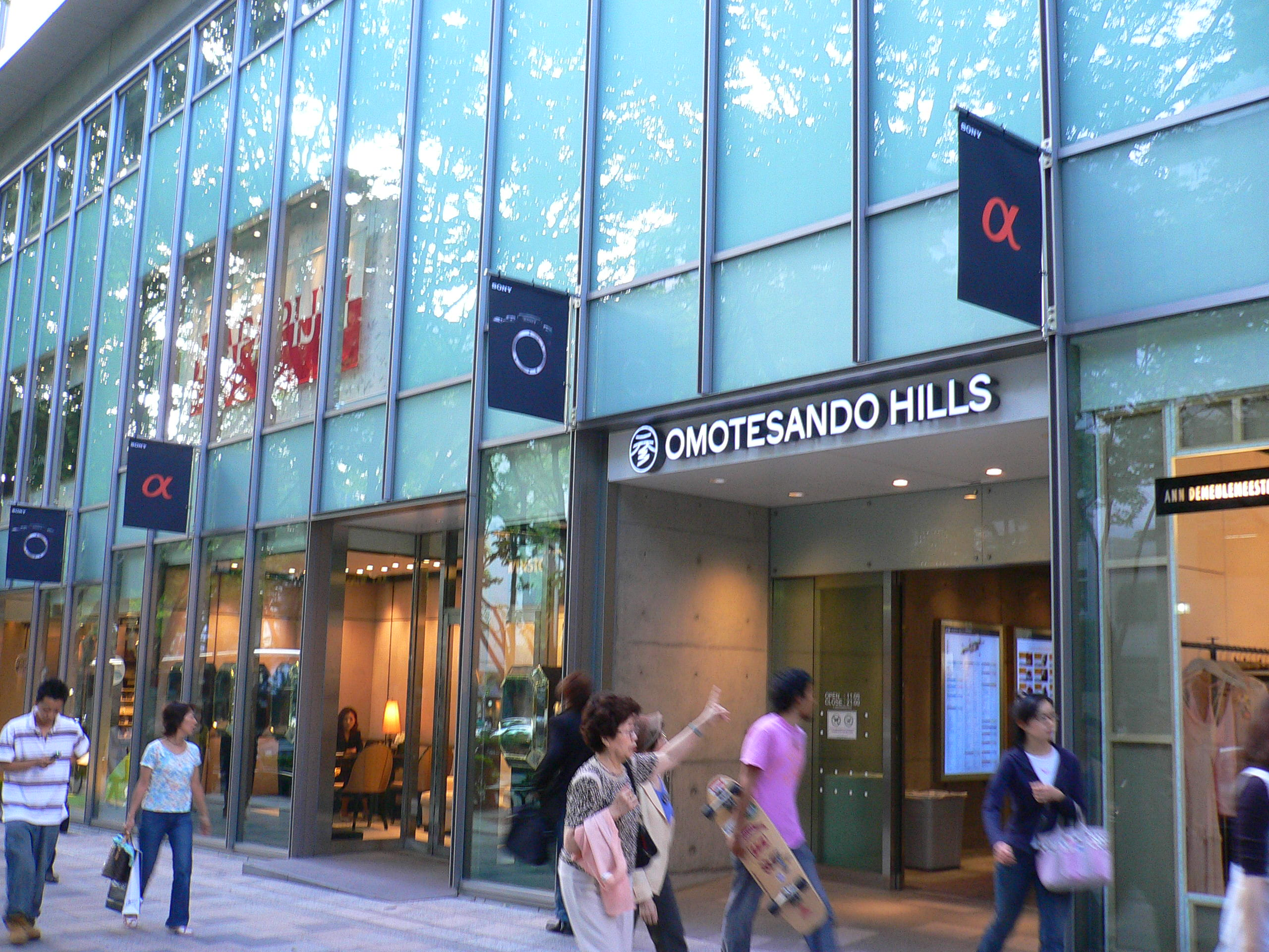 Omotesando Hills (表参道ヒルズ), Shibuya W, Tokyo M.